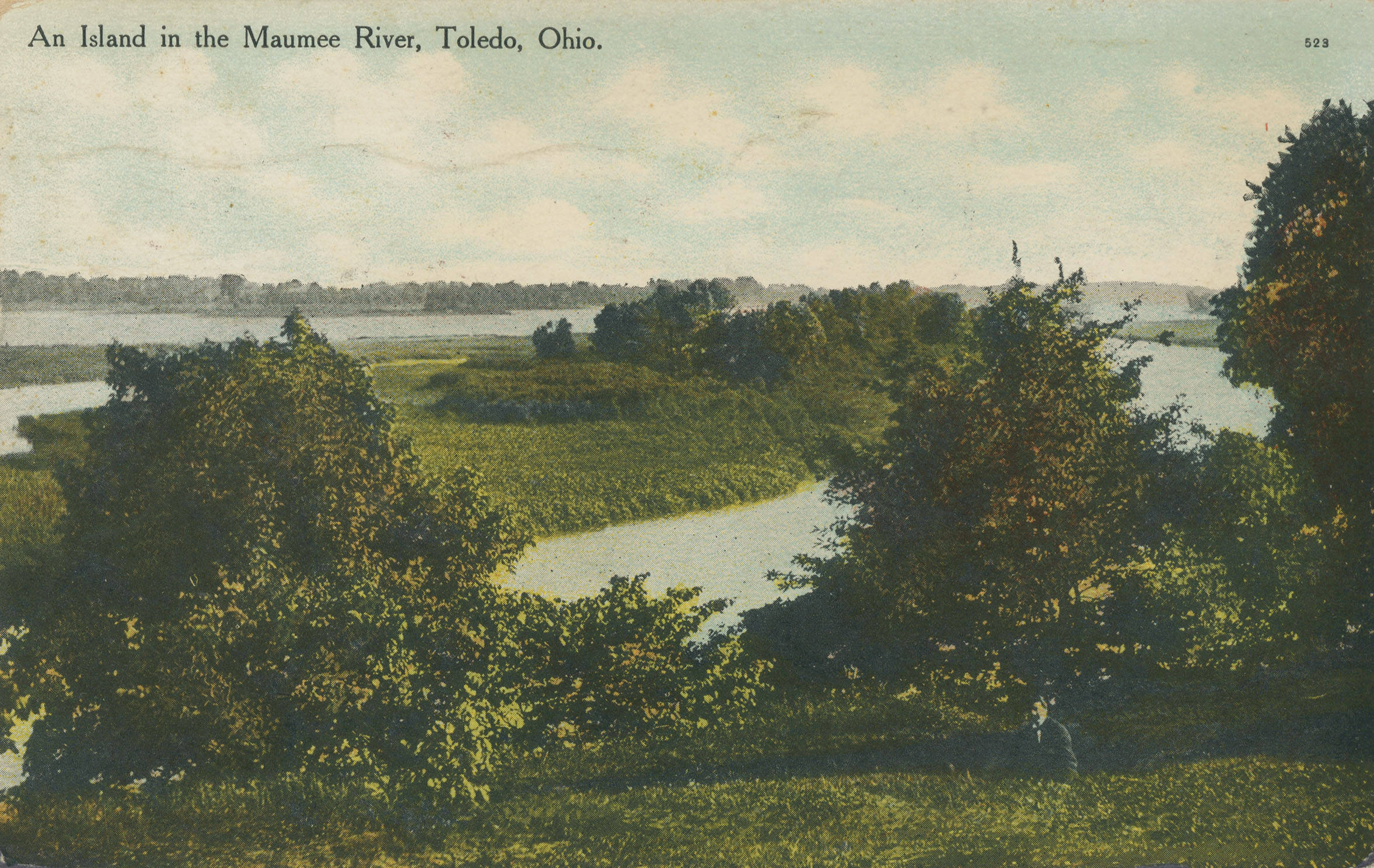 A postcard from the Ken Levin Toledo Poscard Collection, donated by Toledo resident, Ken Levin. The collection contains picture postcards about the Toledo area. Mr. Levin's collection was published by the Toledo Blade in a book entitled "You Will Do Better in Toledo: From Frogtown to Glass City", edited by Sandy and John R. Husman.